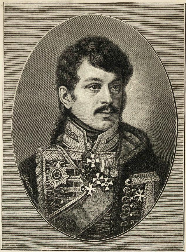 Seslavin Alexandr Nikitich